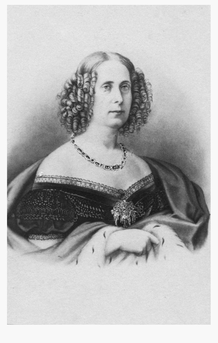 Sophie of Württemberg (1818-77), Queen of the Netherlands, wife of William III of the Netherlands